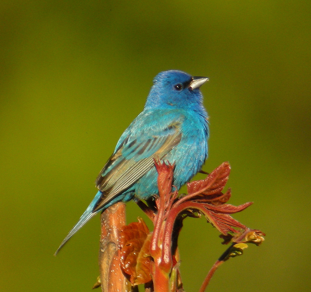 A male in breeding plumage. Indigo Bunting.